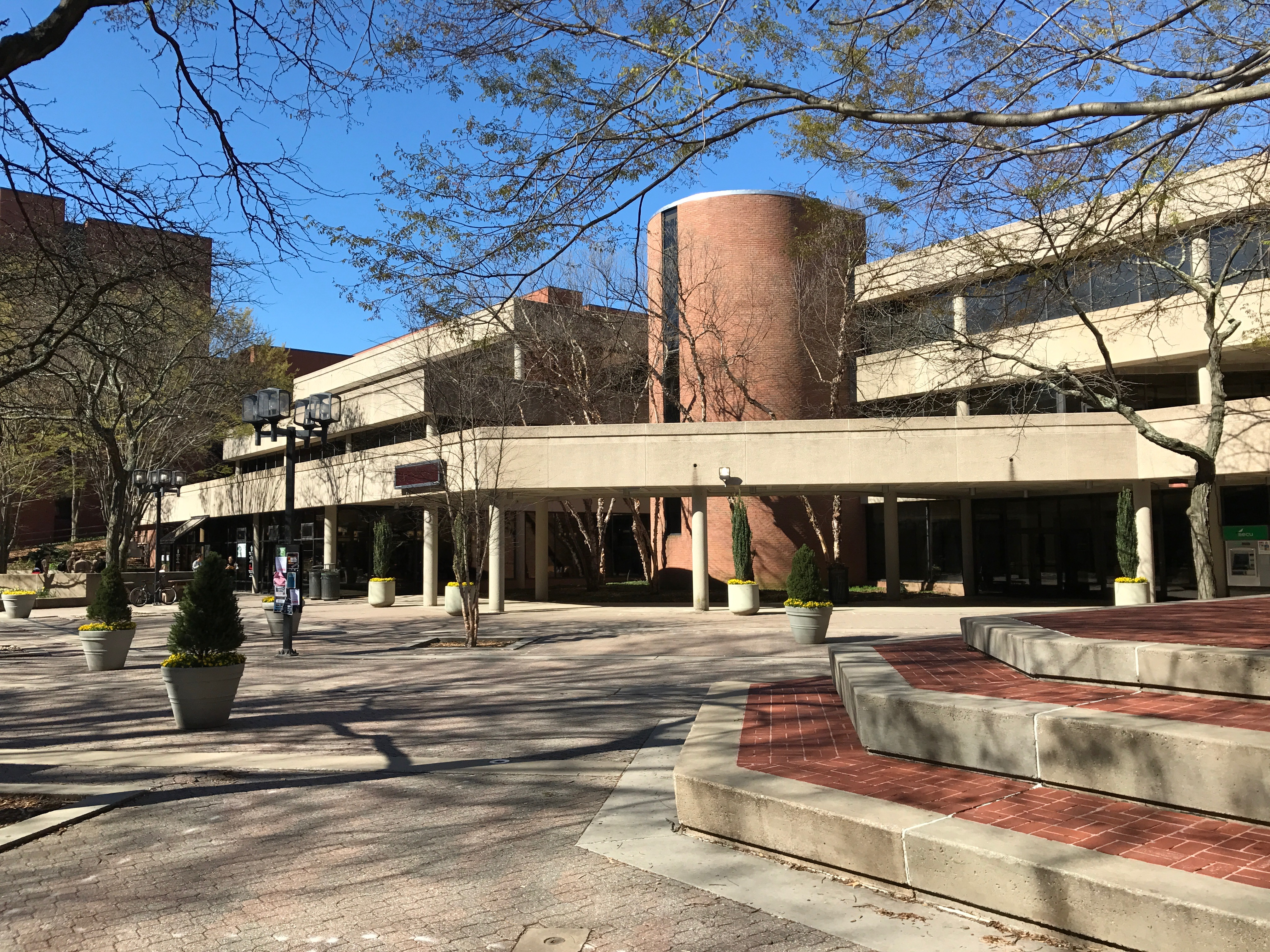 Photograph by Eli Pousson, 2017 April 5.